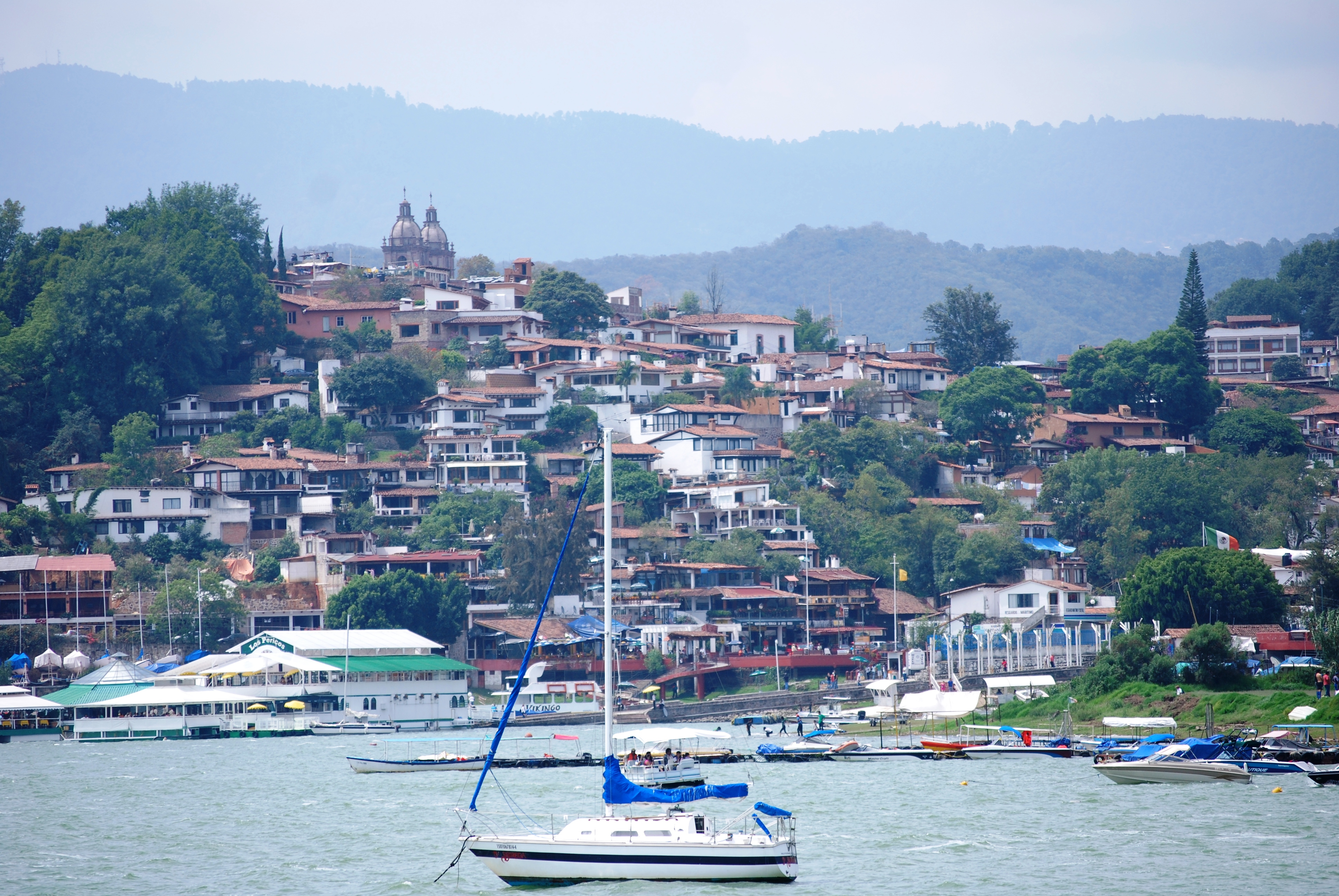 Panoramic of Valle de Bravo Mexico from Lake Valle de Bravo. Sailboat in foreground.